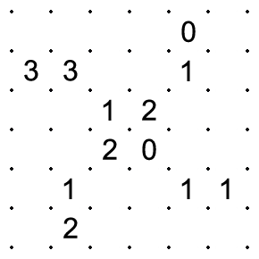 A sample puzzle of Slither Link, created by GLmathgrant (me). The solution is unique.